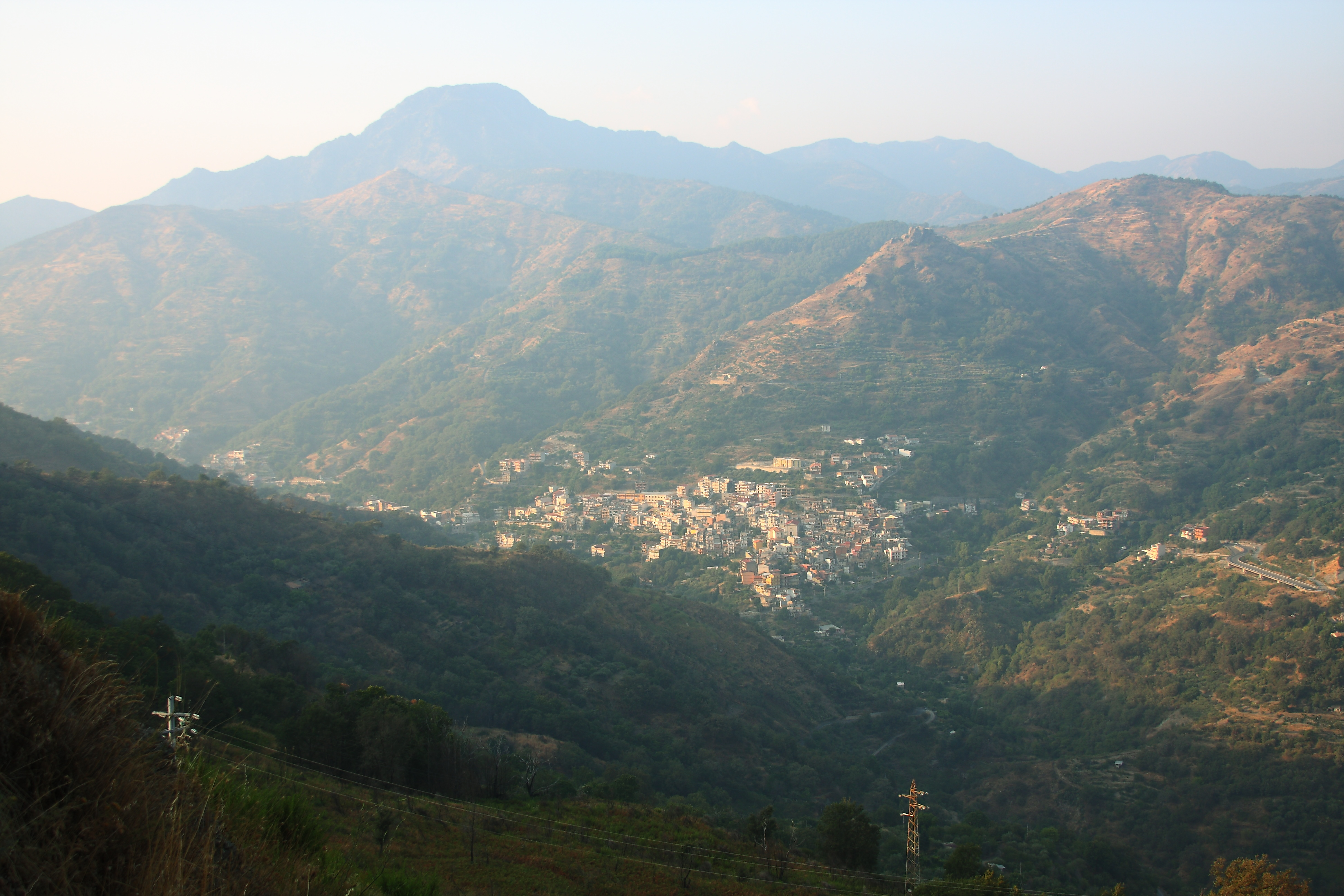 View of the town of Antillo, Province of Messina, Sicily, Italy